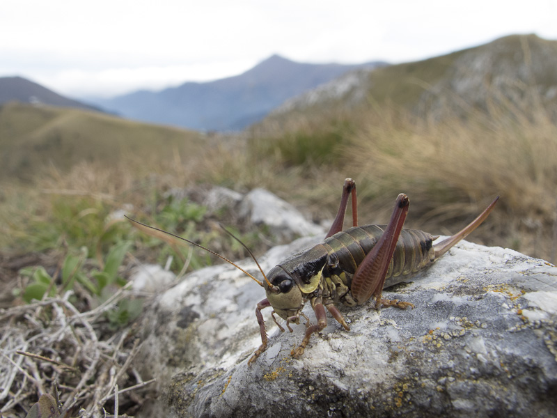 Anonconotus ligustinus female, location: Italy - Limone Piemonte